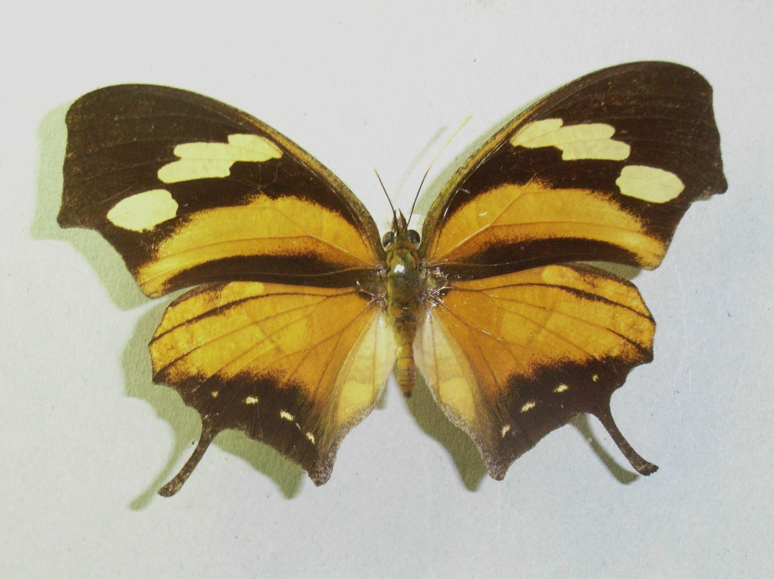 Consul fabius (Cramer, [1775]): Charaxinae:Anaeini:Nymphalidae. Bolivia.